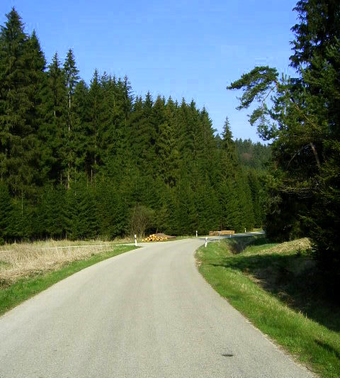 Near Jachenhausen the "Promillewege" (permille path (‰)) in the Paintner forest.